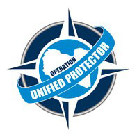 Coat of arms of NATO's operation Unified Protector